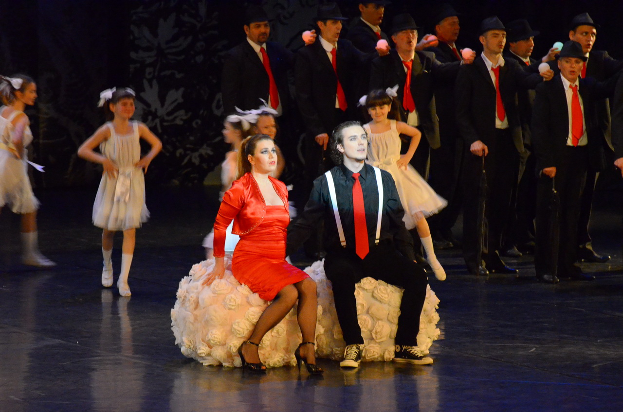 "Carmina Burana", the scenic cantata by Carl Orff, based on 24 poems from the medieval collection Carmina Burana, directed by Sonja Vukićević, Opera of the SNP, Novi Sad, 2009/10; Darija Olajoš Čizmić, Vasa Stajkić Srpski (latinica): "Karmina Burana", scenska kantata Karla Orfa, bazirana na 24 pesme srednjovekovnog zbornika Karmina Burana, u režiji Sonje Vukićević, Opera SNP, Novi Sad, 2009-2010; Darija Olajoš Čizmić, Vasa Stajkić Српски (ћирилица): "Кармина Бурана", сценска кантата Карла Орфа, базирана на 24 песме средњовековног зборника Кармина Бурана, у режији Соње Вукићевић, Опера СНП, Нови Сад, 2009-2010; Дарија Олајош Чизмић, Васа Стајкић